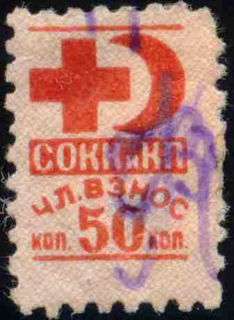 USSR Union of Red Cross and Red Crescent Societies revenue stamp, 50 kopeks, 1960-ies.